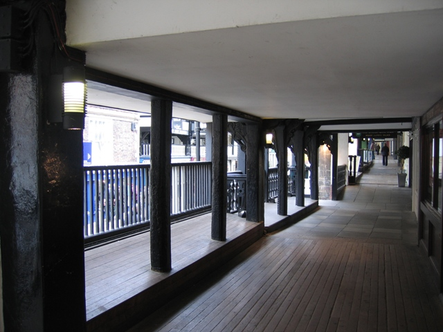 Watergate Row south and Bishop Lloyd's Palace This section of Watergate Row, on the south side of Watergate Street, is above the street level and within the structure of Bishop Lloyd's Palace.